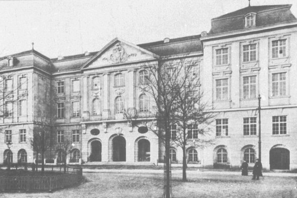 Rautenstrauch-Joest-Museum, Ubierring, um 1910 (Köln, Kölnisches Stadtmuseum, rba_mfL011224_11).